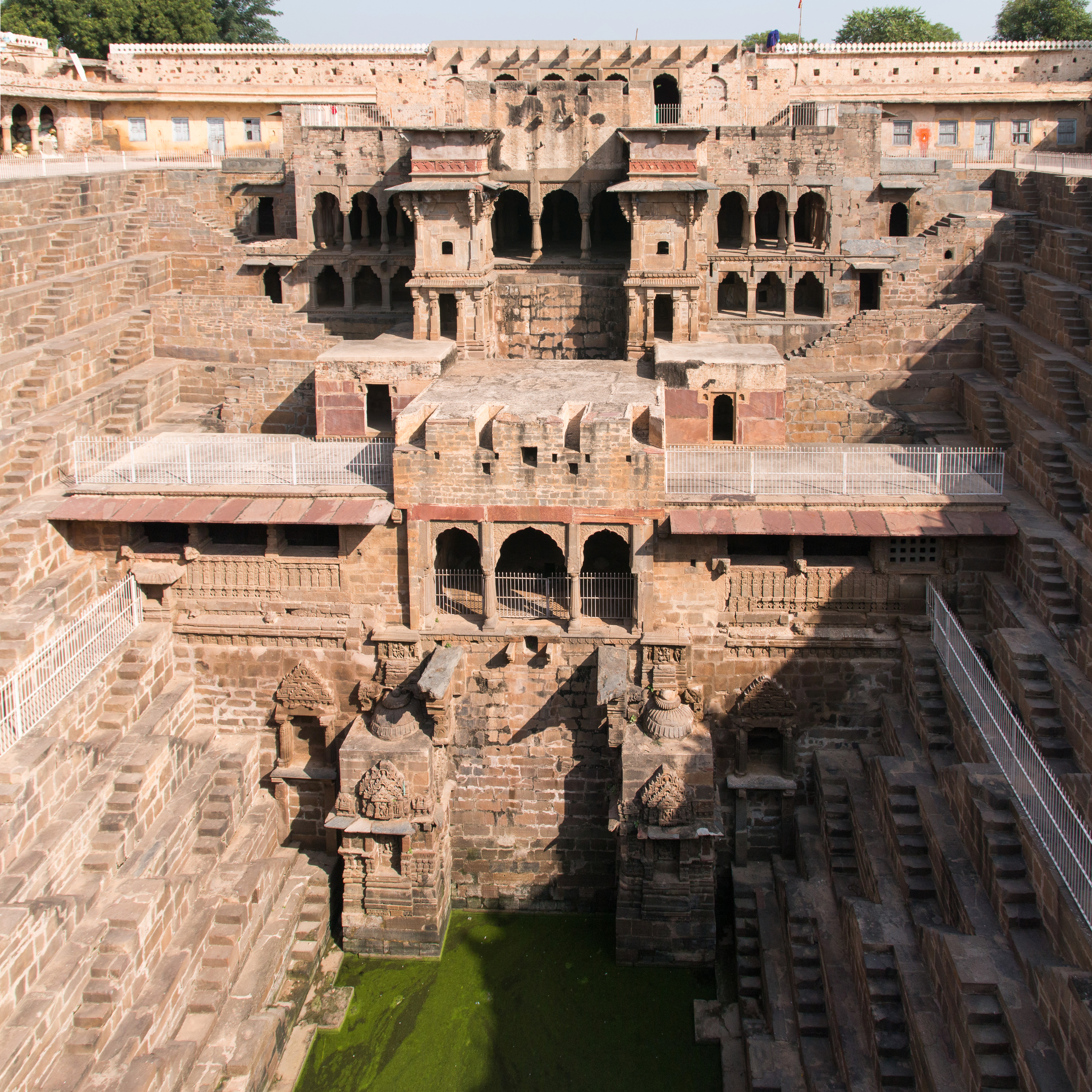 Chand Baori seen to North.